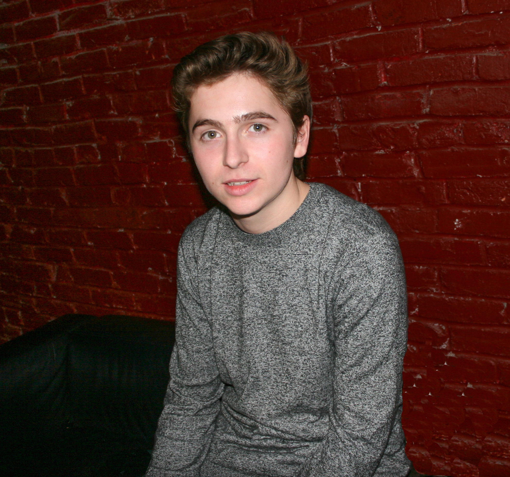 Gavin Becker back stage at the TLA Theater of the Living Arts in Philadelphia